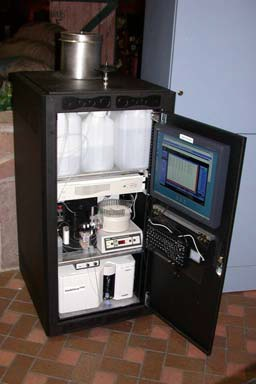 Autonomous Pathogen Detection System showing aerosol collection, sample preparation and detection systems, and data acquisition and control systems.